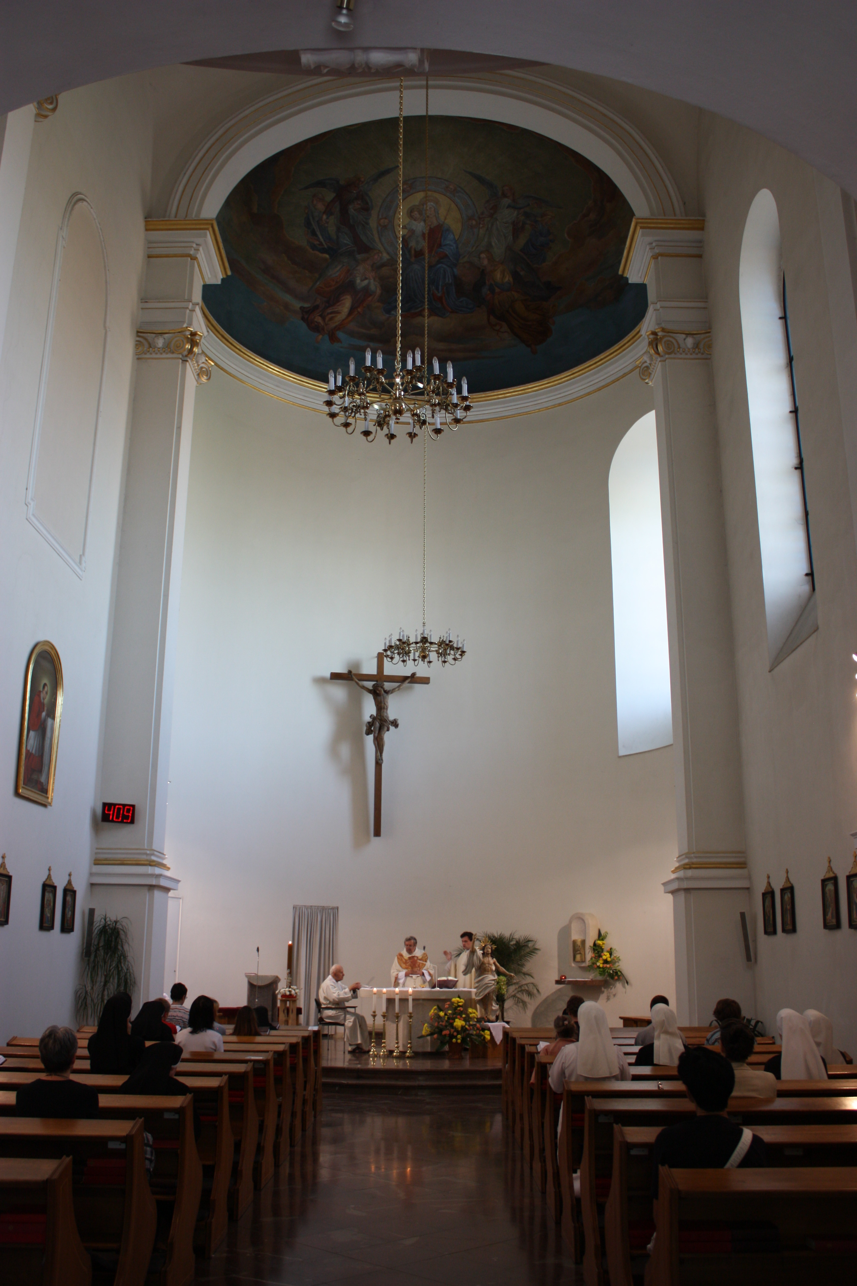 Prague-Malá Strana, the Czech Republic. Vlašská Street, Interior of Saint Charles Borromeo Church.